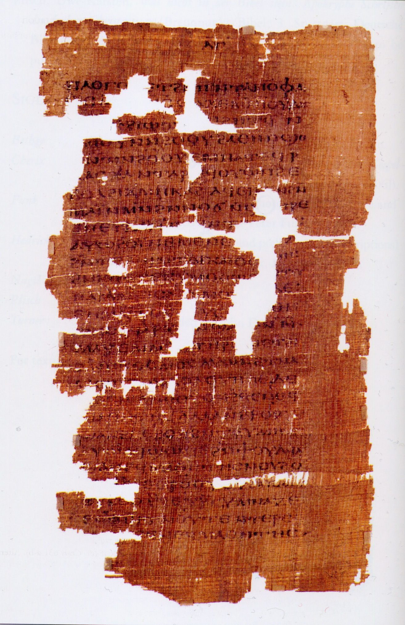 Page from Codex Tchacos.